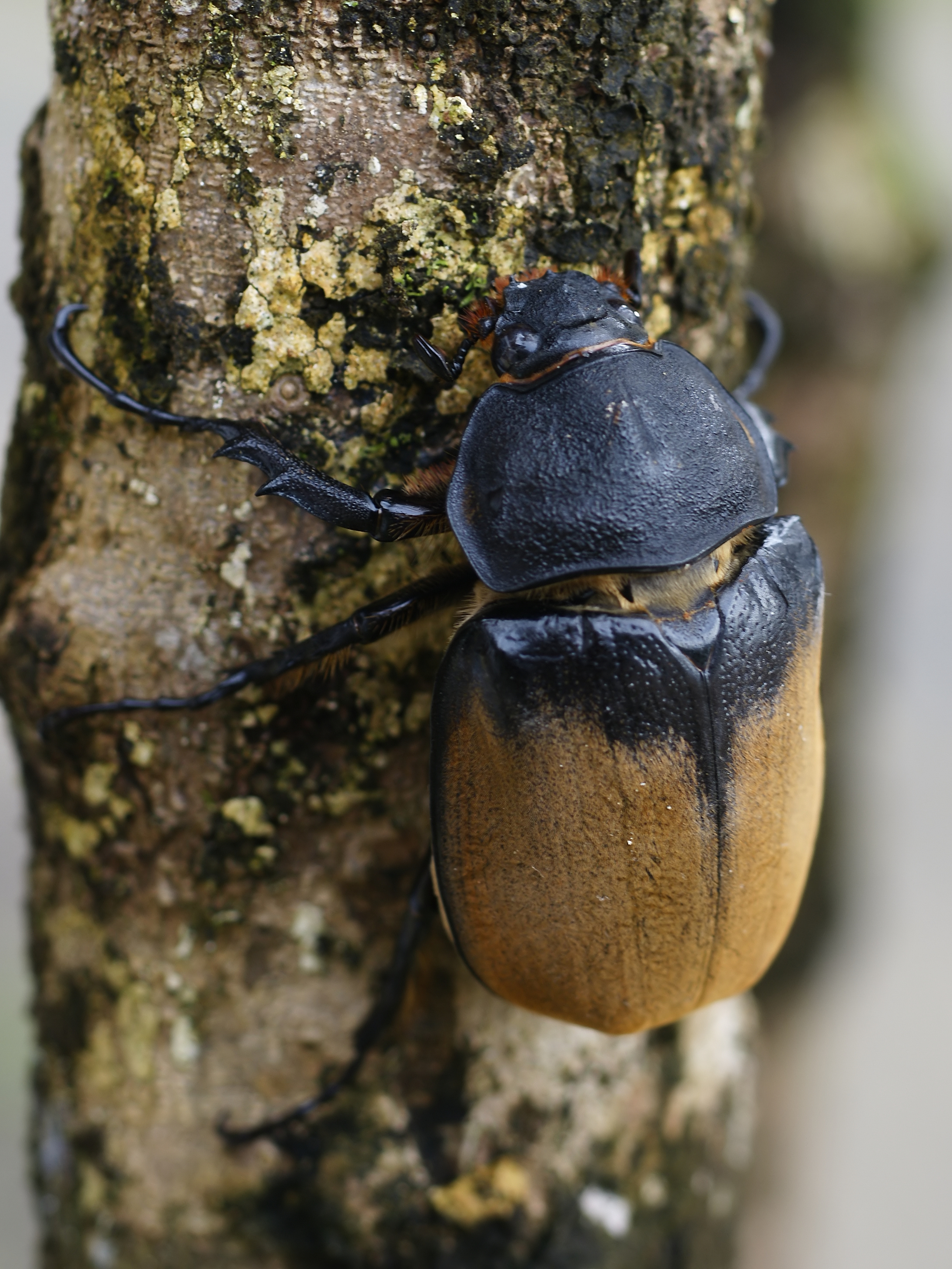 8 cm long female Hercules beetle at Cahuita, Costa Rica.